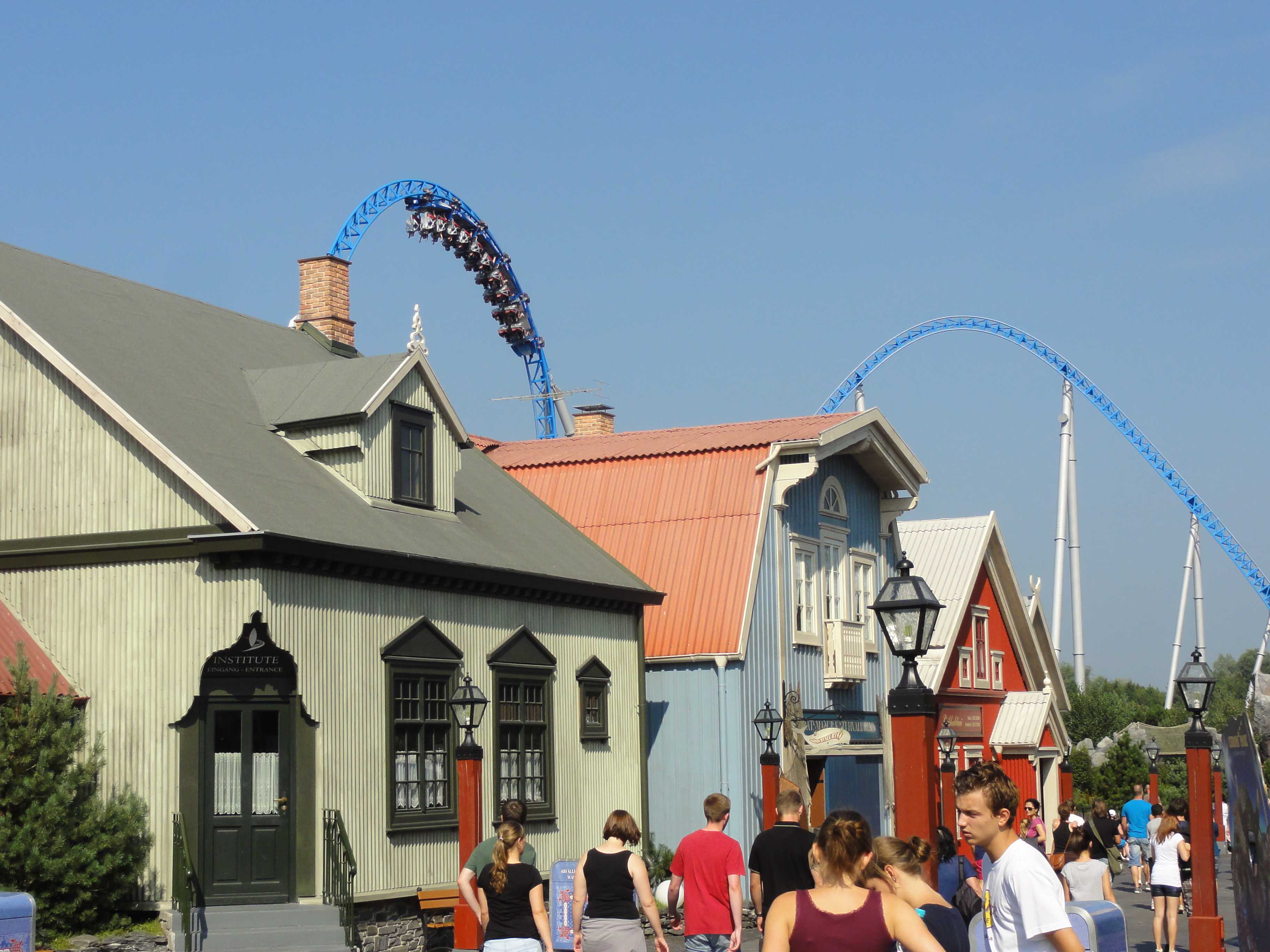 Blue Fire Megacoaster, Europa-Park, Rust, Baden-Württemberg, Germany.